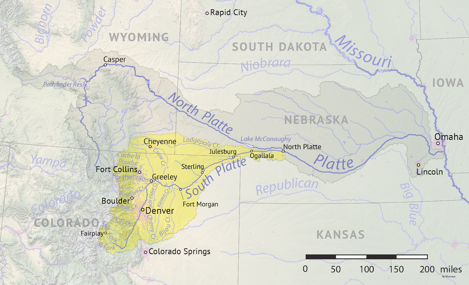 Map of the South Platte River drainage basin, a tributary of the Platte River, in the central US. Made using USGS National Map and NASA SRTM data.